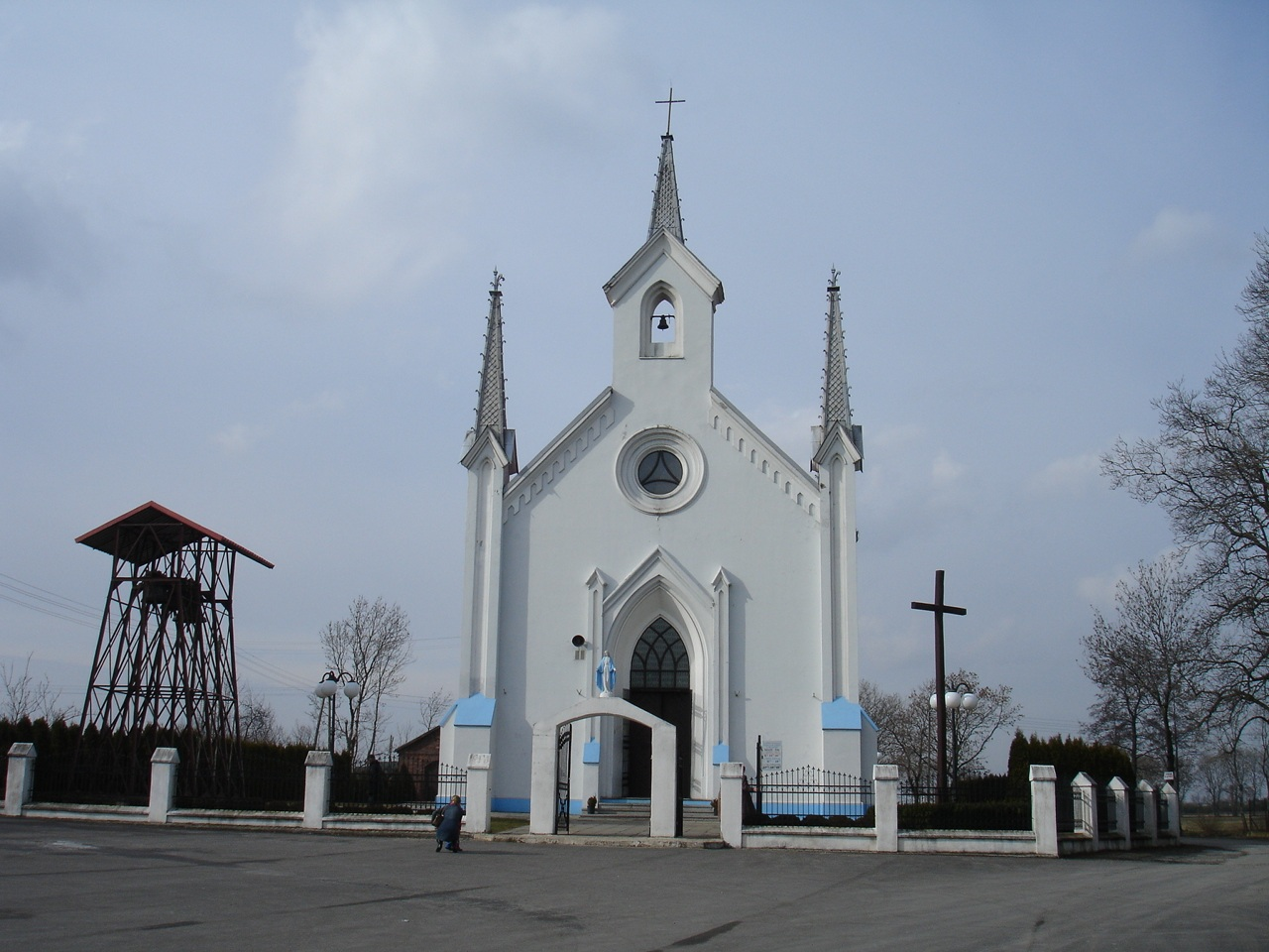 Mykanów latin church